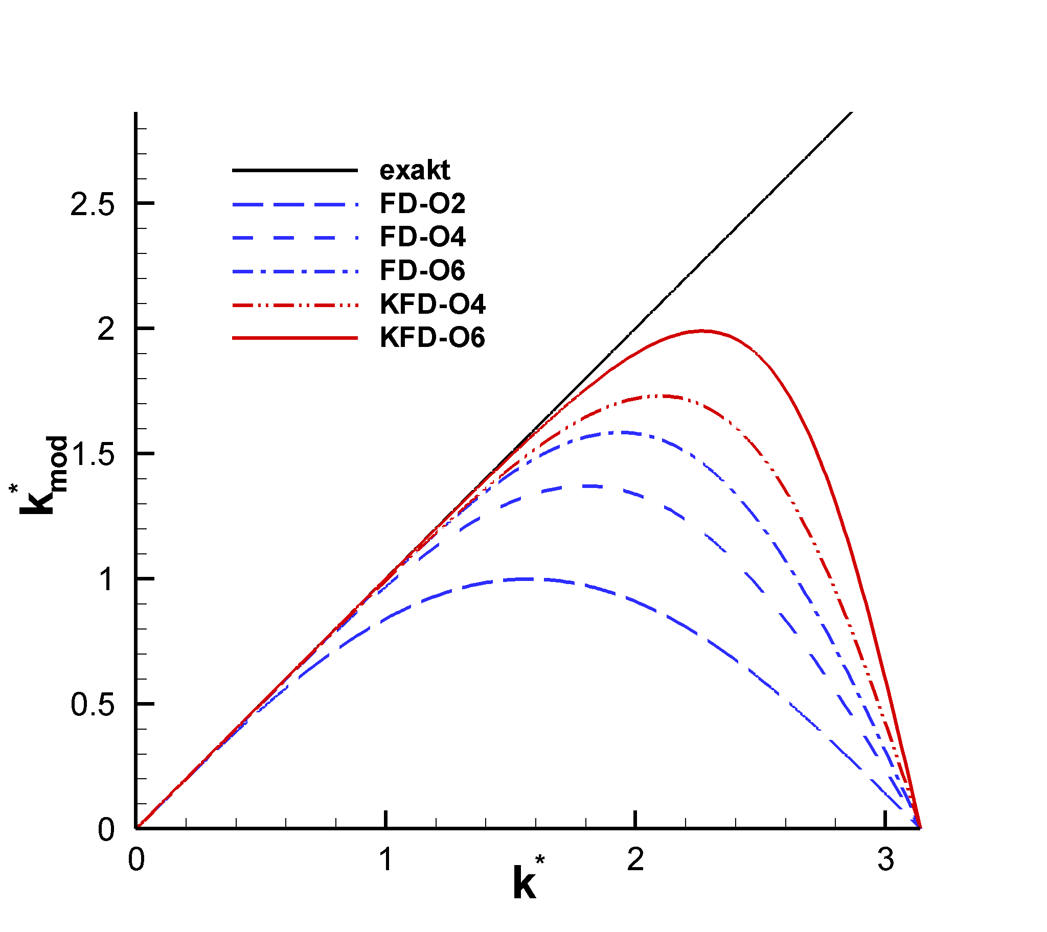 Modified wave number for various explicit and compact finite differences